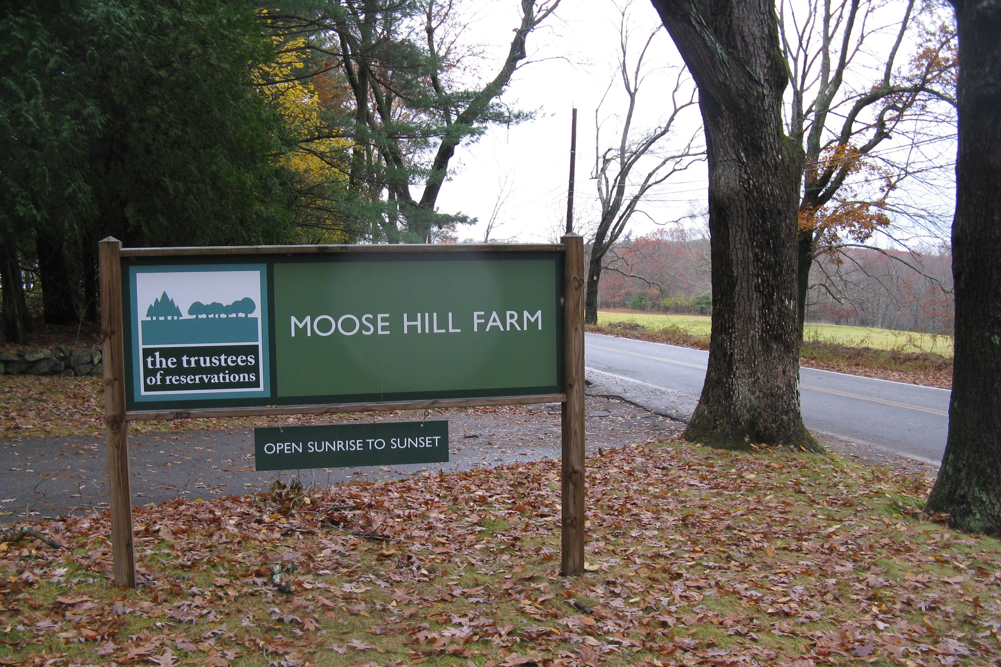 Moose Hill Farm, Sharon Massachusetts, November 2008